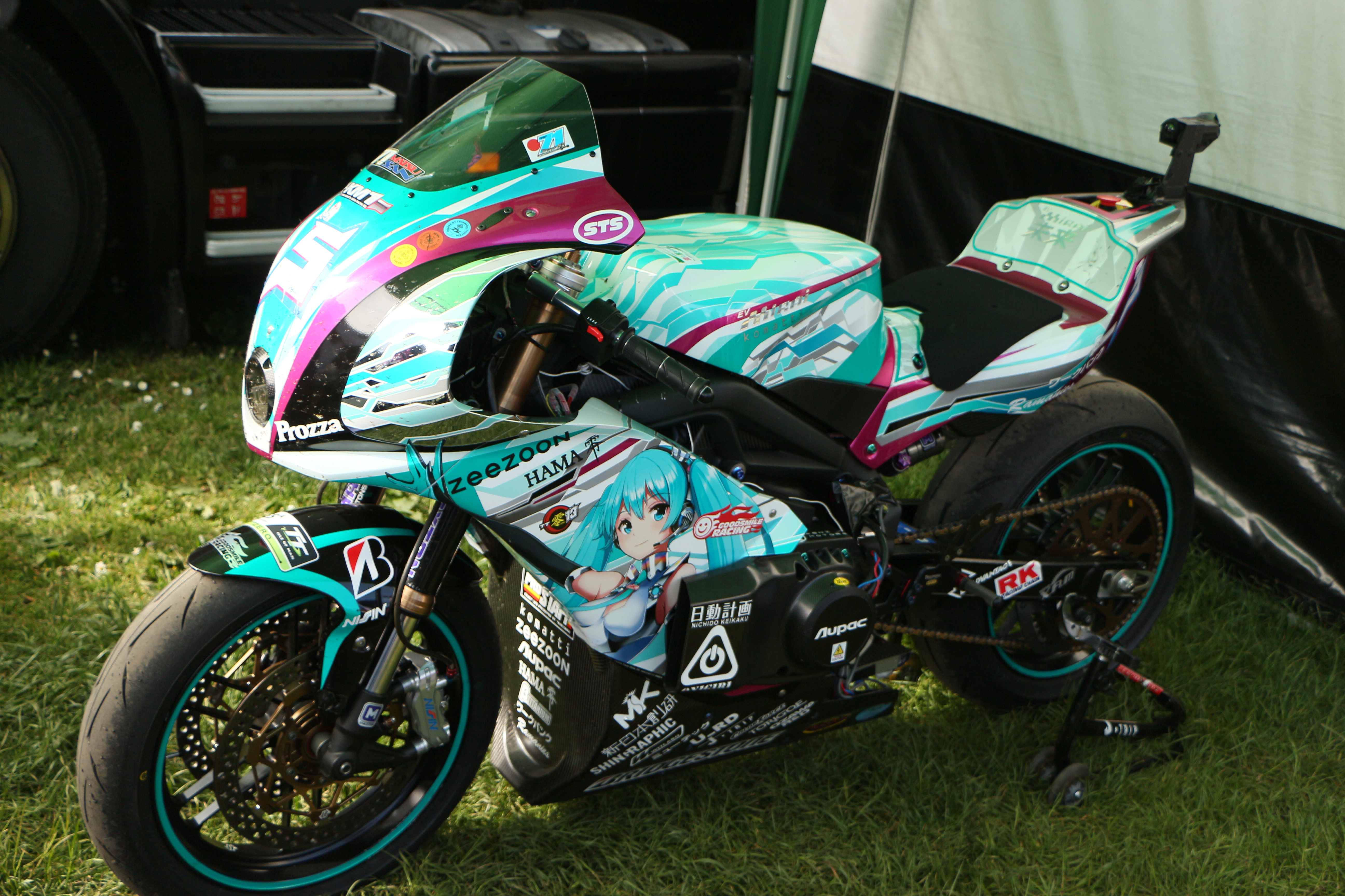 GOODSMILE Racing Komatti-Mirai EV on TT Zero 2013